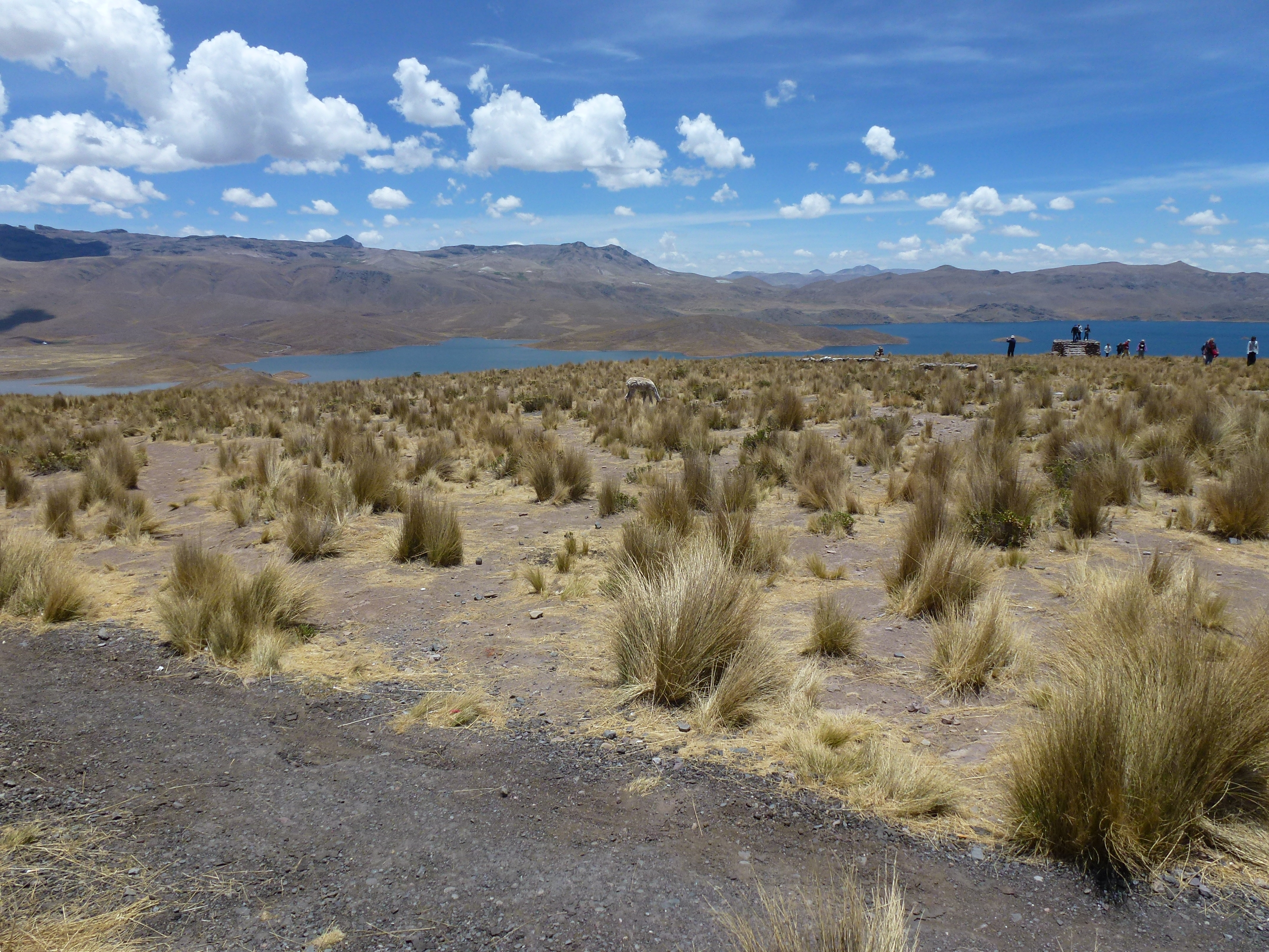 Lagunillas lagoon, Peru